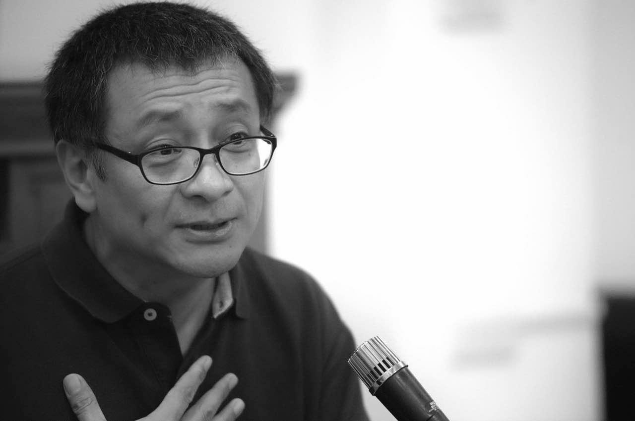 Dzogchen Ponlop Rinpoche teaching